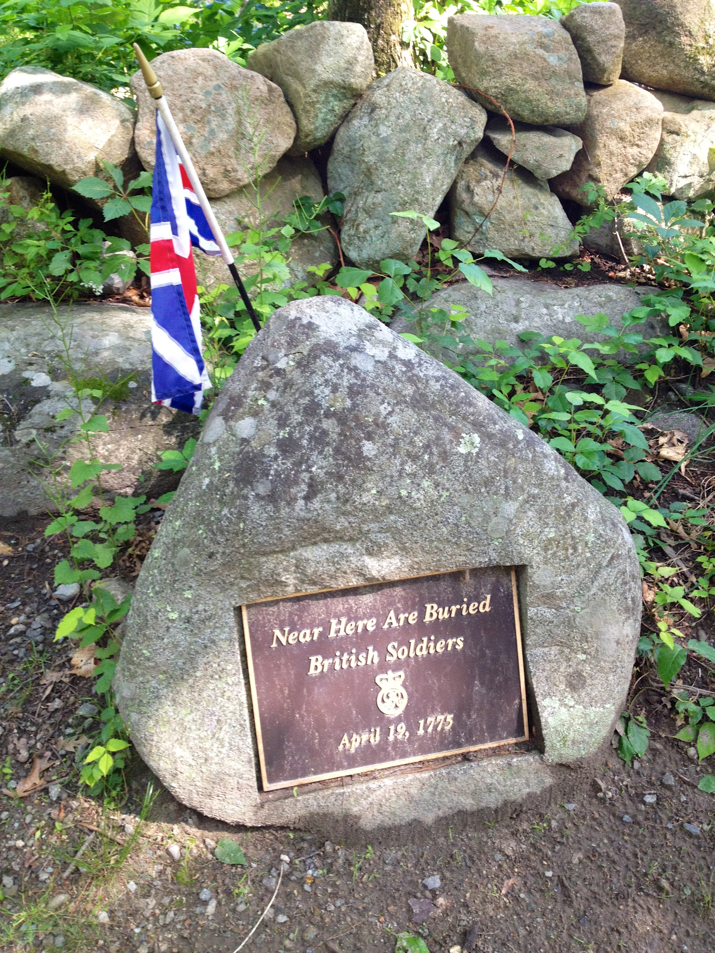 Grave marker of British Soldiers along Battle Road in Lexington, marking the burial sites of British soldiers that died during the Battle of Lexington and Concord, April 19, 1775. The markers are maintained with British flags.